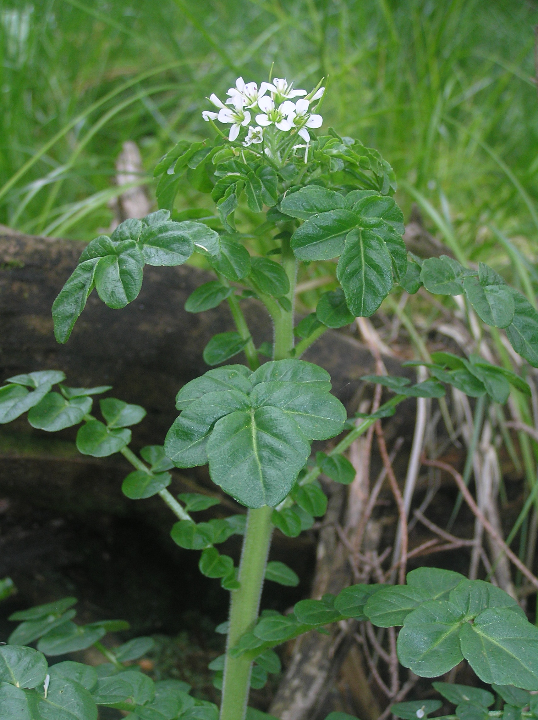 Cardamine amara subsp. opicii, Králický Sněžník, Czech Republic